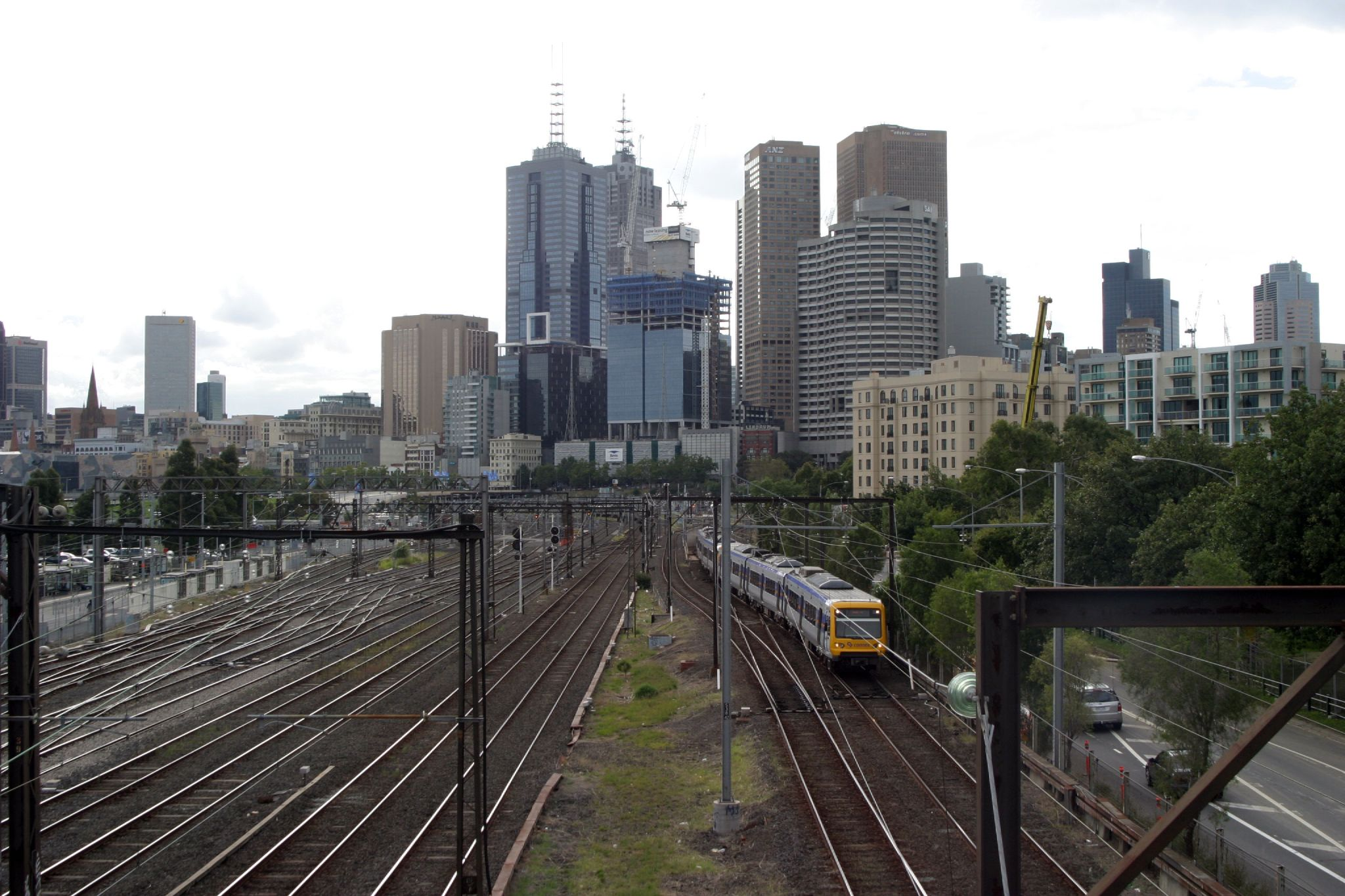 The Jolimont Melbourne Hotel is the small yellow building on the right hand side above the railway tracks.